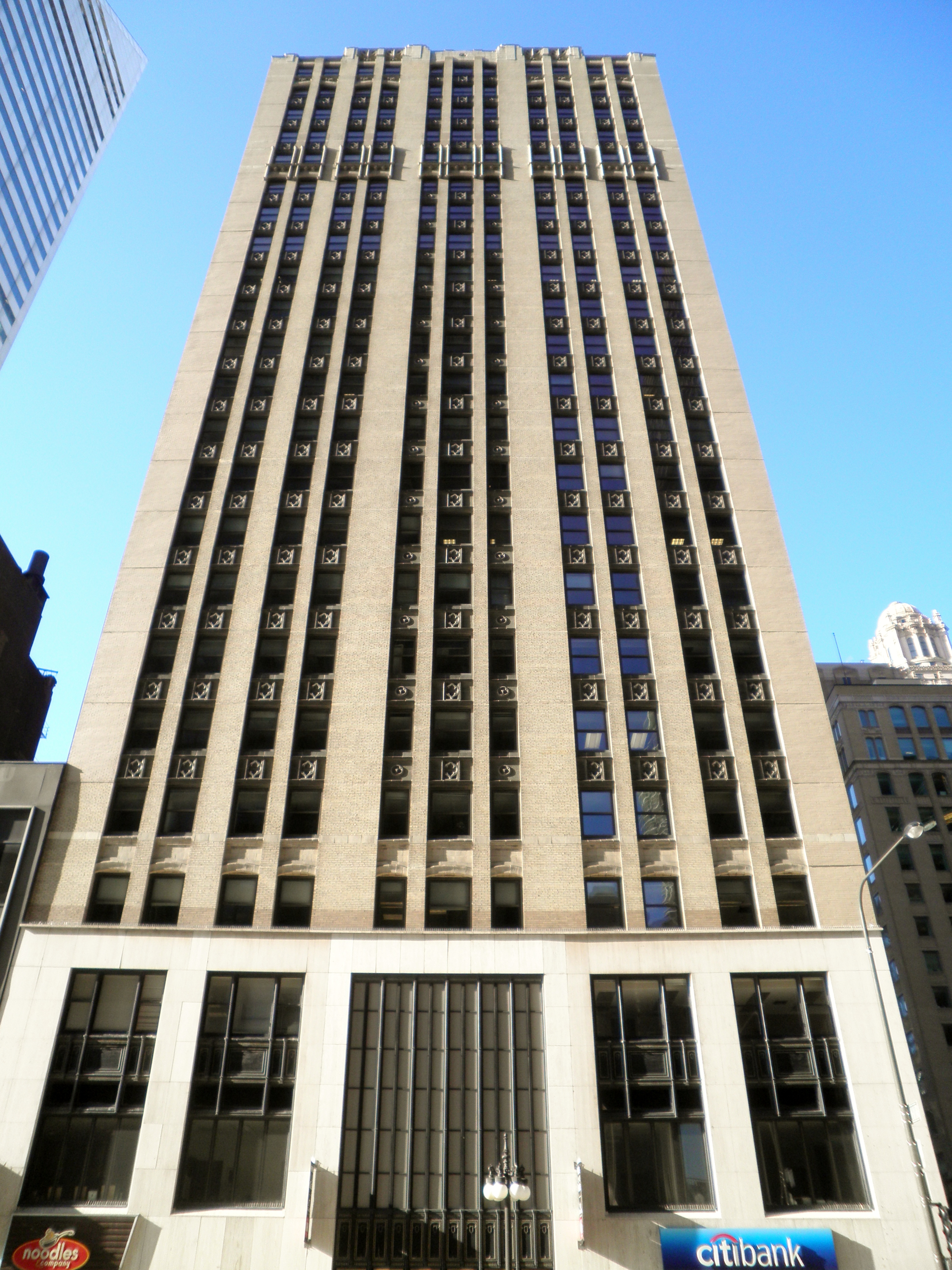 180 North Michigan Chicago